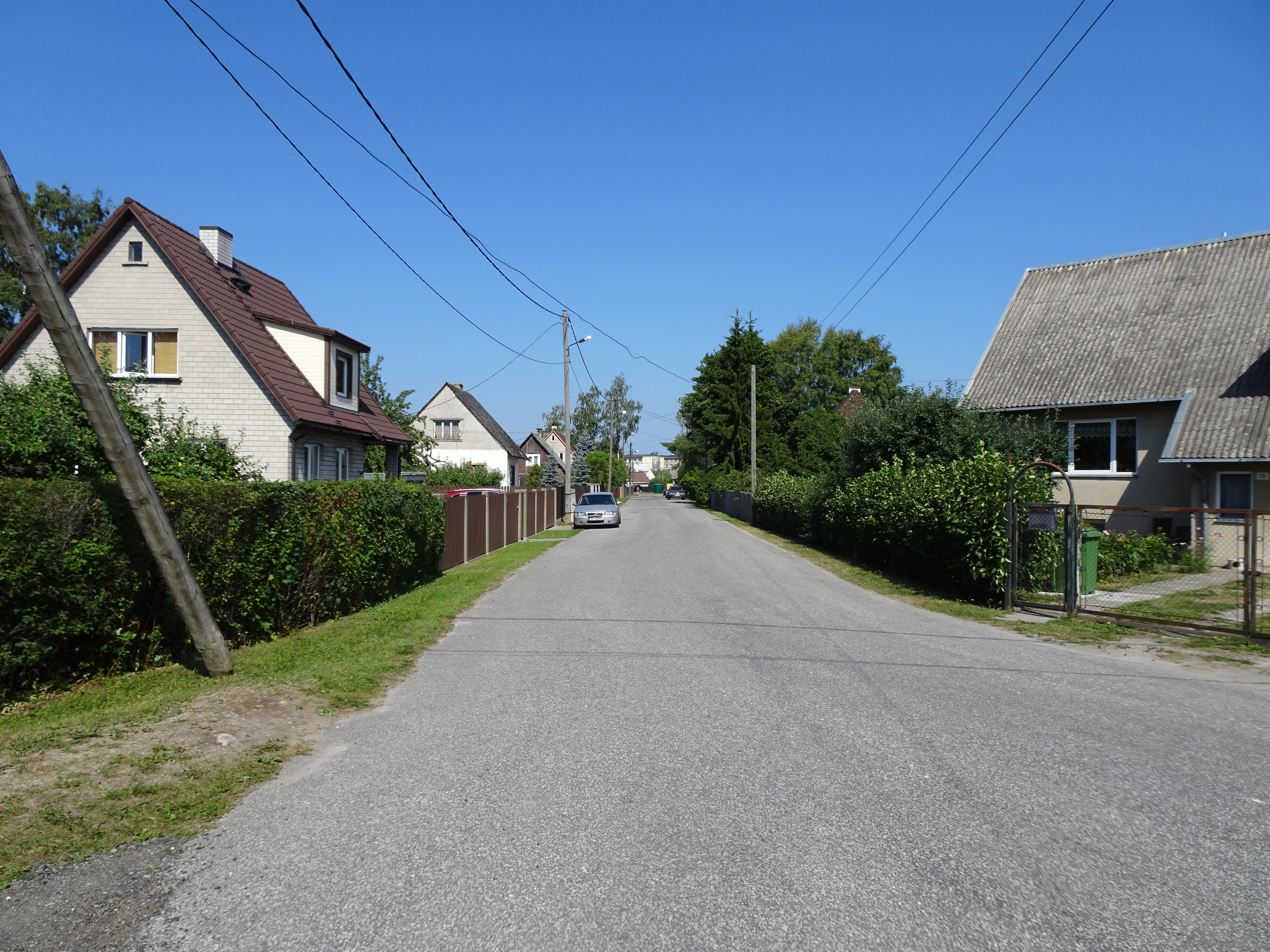 Käbliku Street in Tallinn, Estonia